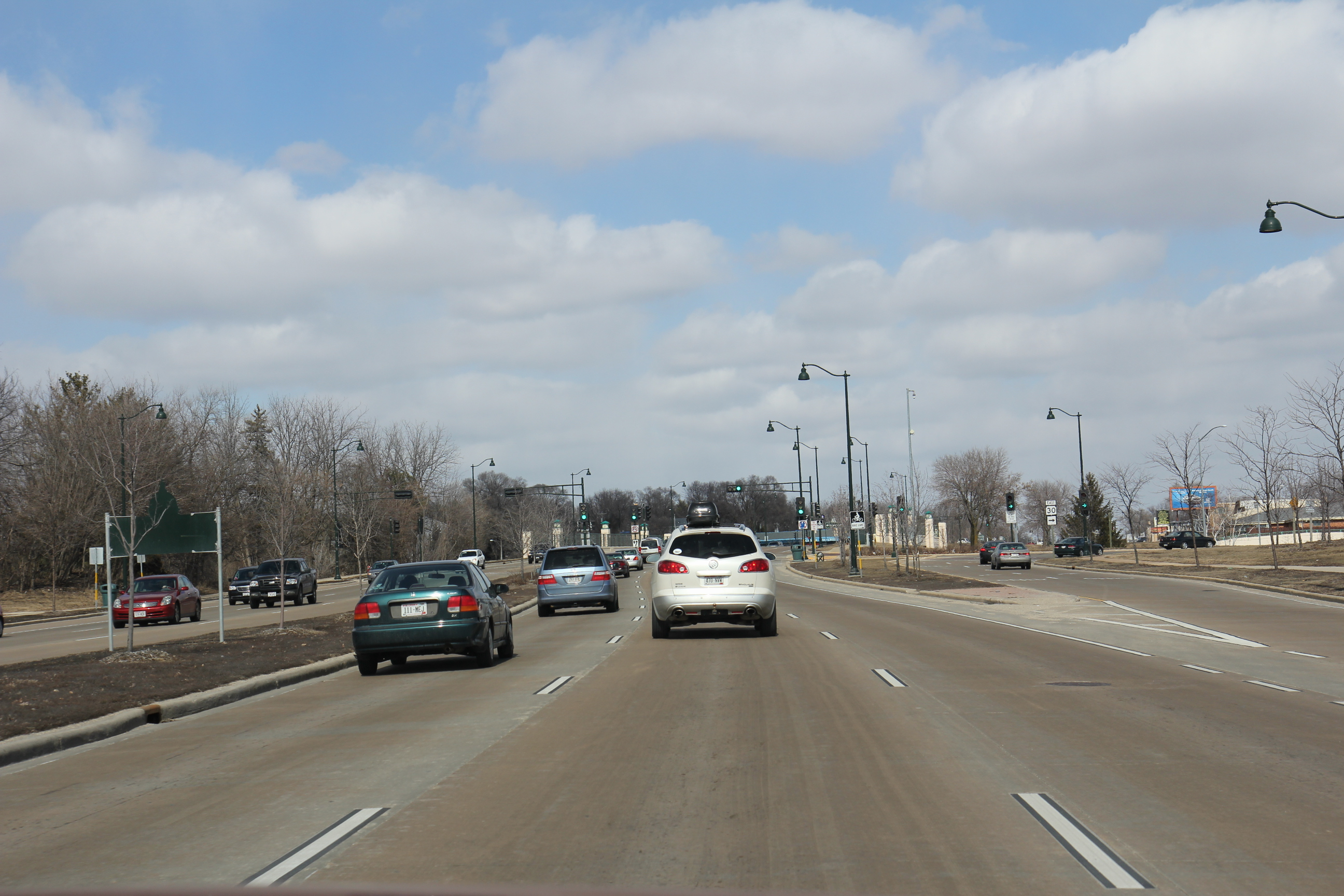 The western terminus for Wisconsin Highway 30 as it splits from U.S. Route 151.